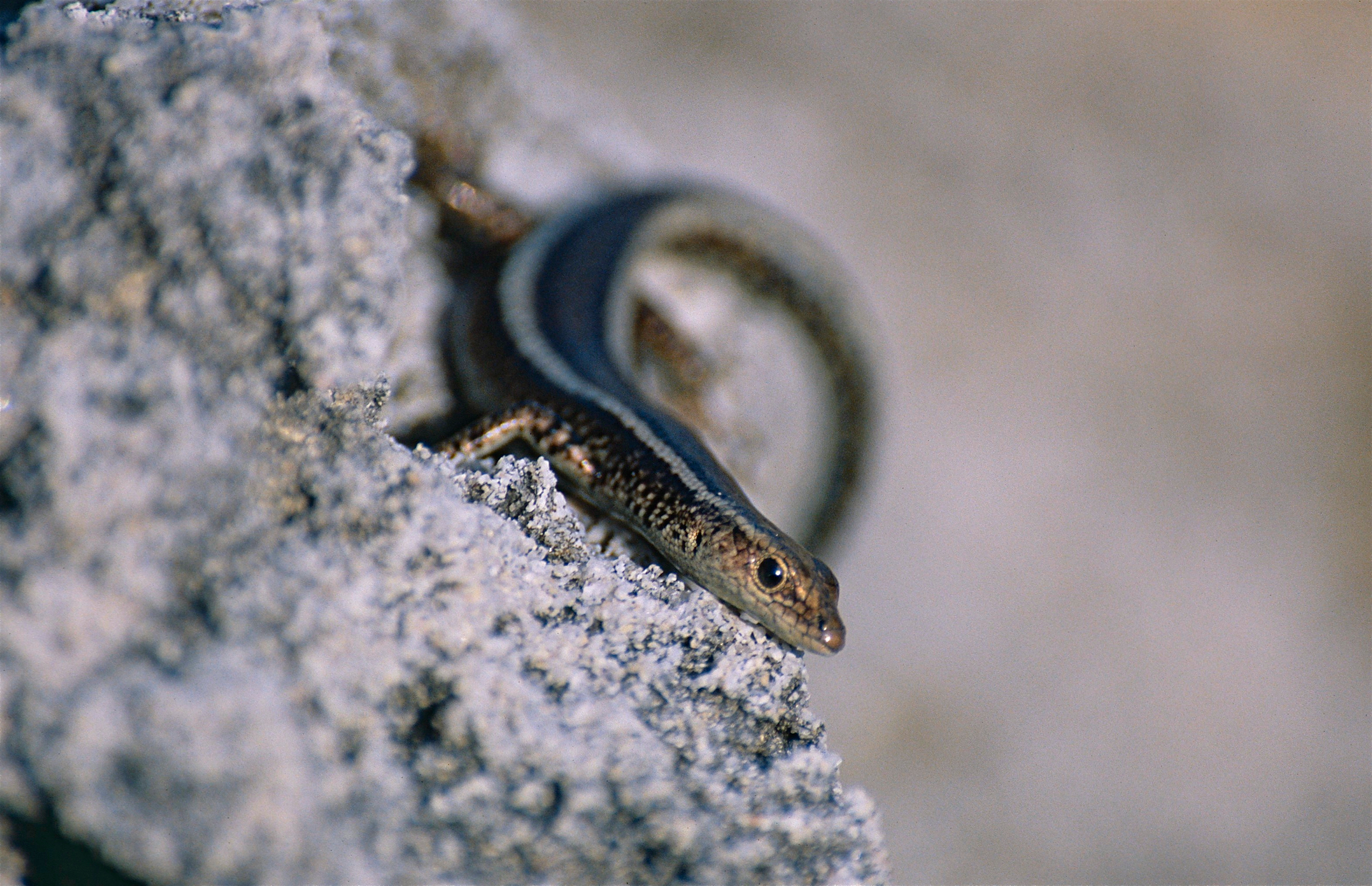 Watamu, KENYA Scanned Slide from 2002